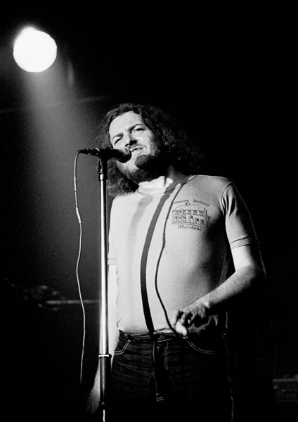 Joe cocker performing; 16th October 1980 National Stadium, Dublin He does look happy, he was drunk as a skunk but gave an amazing performance to a half full venue. Photo: Eddie Mallin